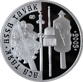 Coin of Kazakhstan